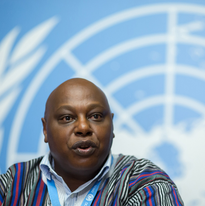 UN Special Rapporteur on the rights to freedom of peaceful assembly and of association Maina Kiai speaks at a press conference in Geneva on March 11, 2016